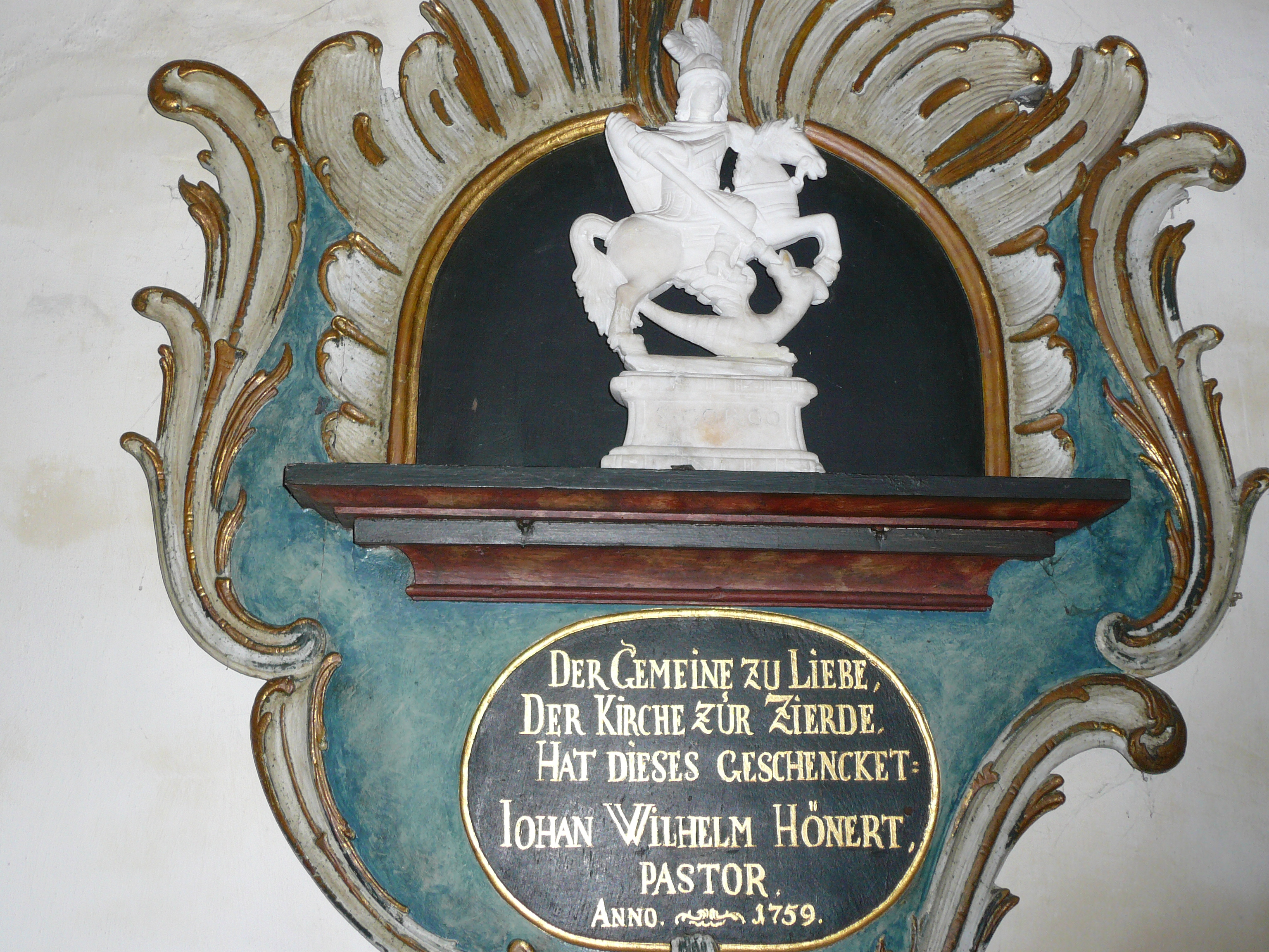 An epitaph in the curch of St. Jürgen in Lower Saxony